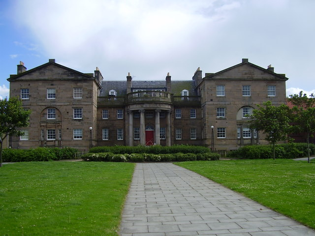 Lauderdale House, Dunbar, Scotland Originally built for the Fall family it was later purchased by the Duke of Lauderdale, who added the wings. In the 19th century, it was taken over as Army barracks. Is now a block of flats.